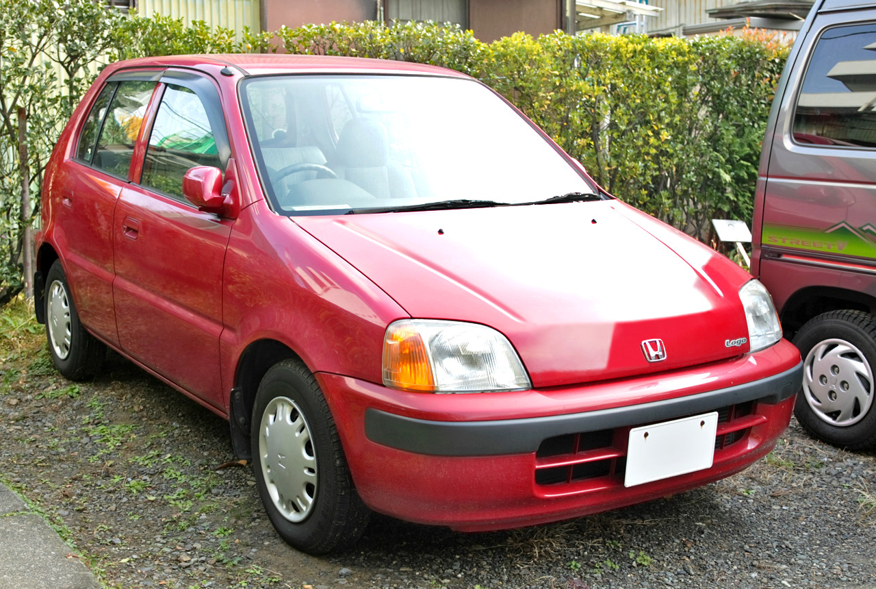 Honda Logo early type